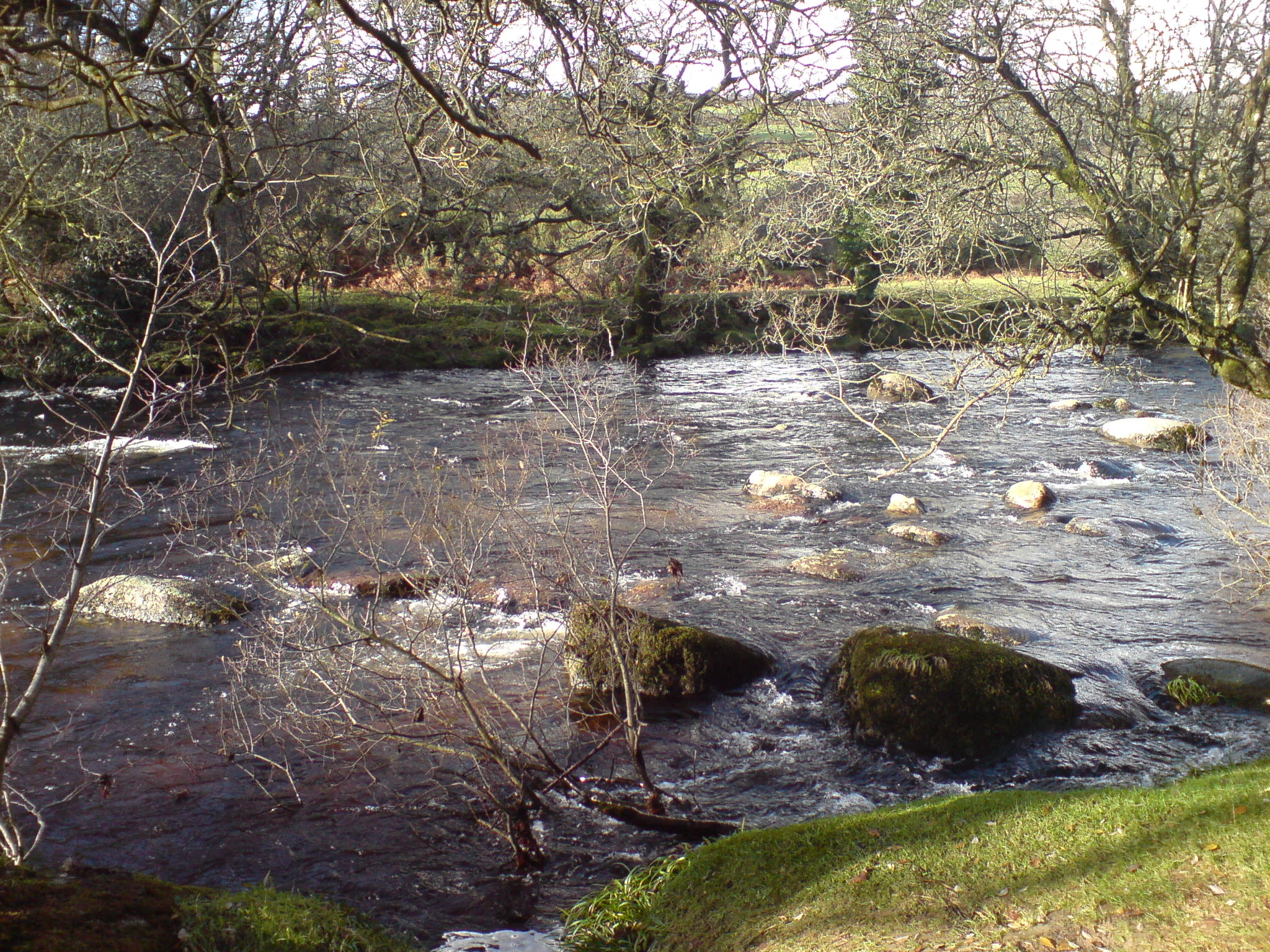 Rapids immediately below Dartmeet in Devon.